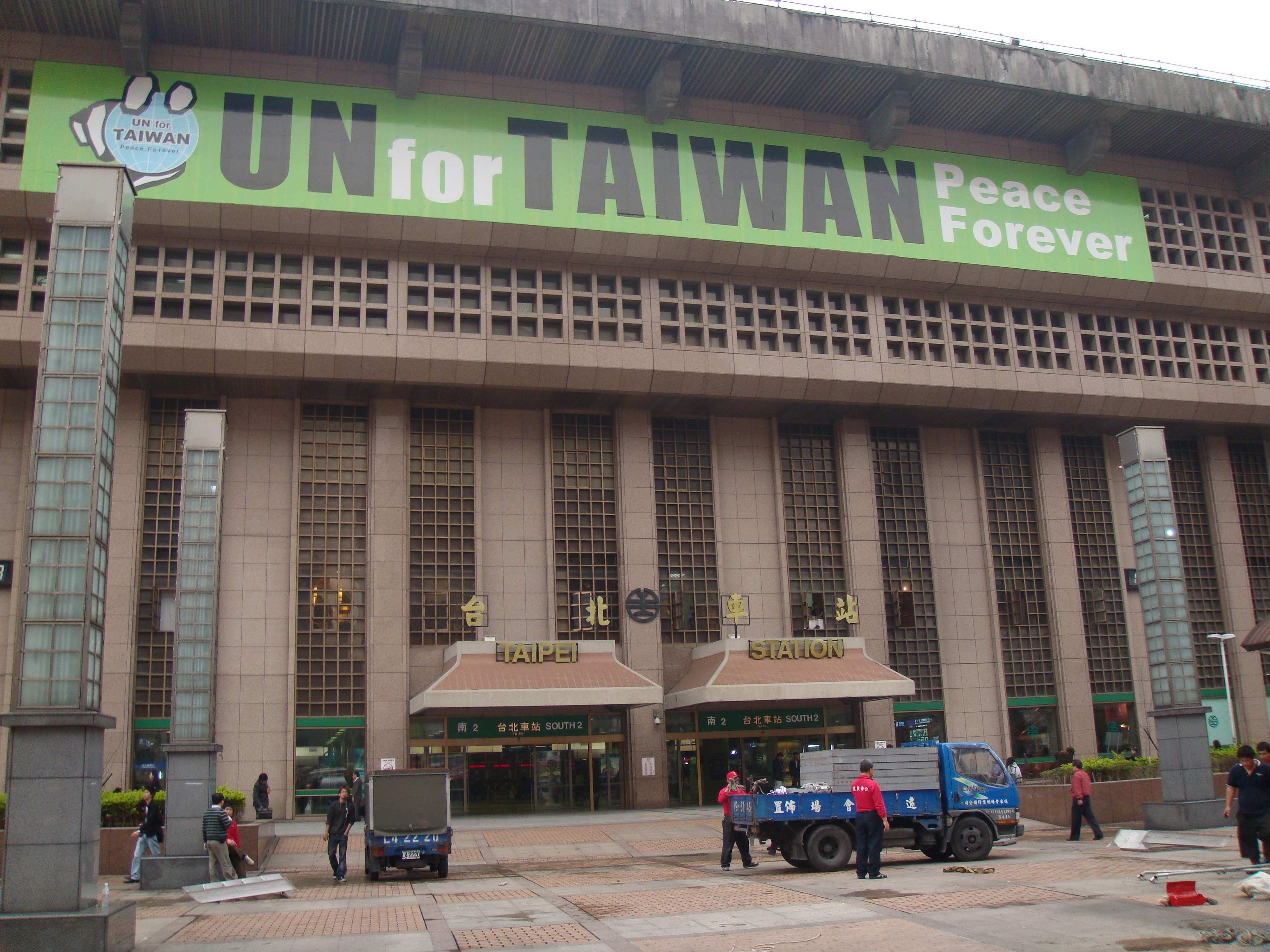 Exterior of TRA Taipei Station. Under Chen Shui-bian's government, banners advocating that Taiwan join the United Nations were widespread on governmental buildings in Taiwan.